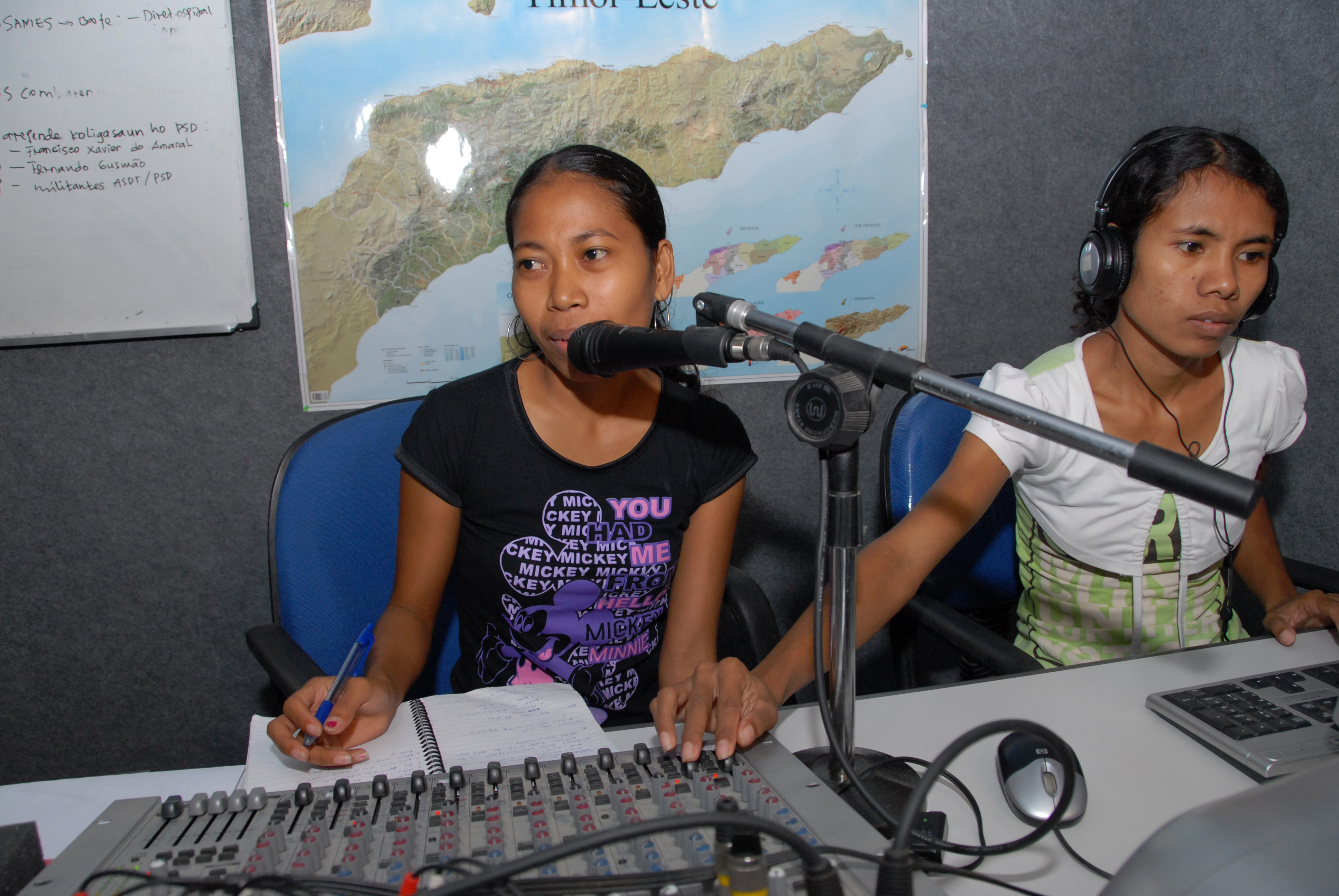 At the Independent Centre For Journalism, young East Timorese women and men participate in education and training courses to produce quality news stories.